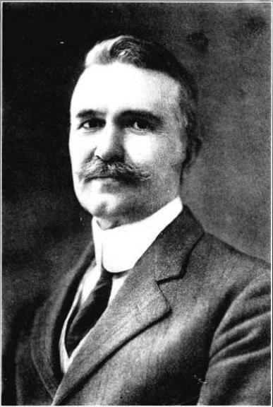 William Phillip Spratling